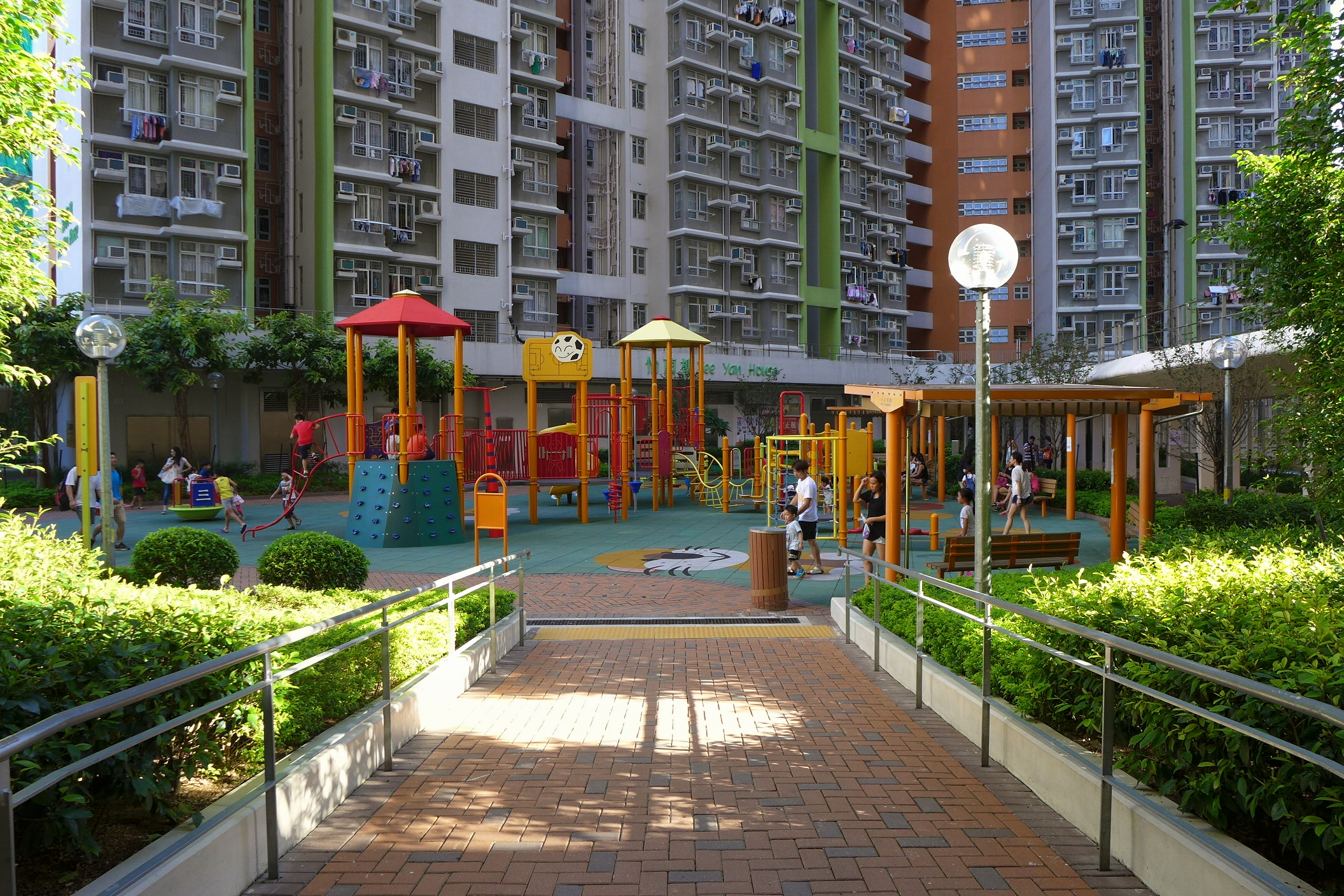 Yee Ming Estate Children Play Area